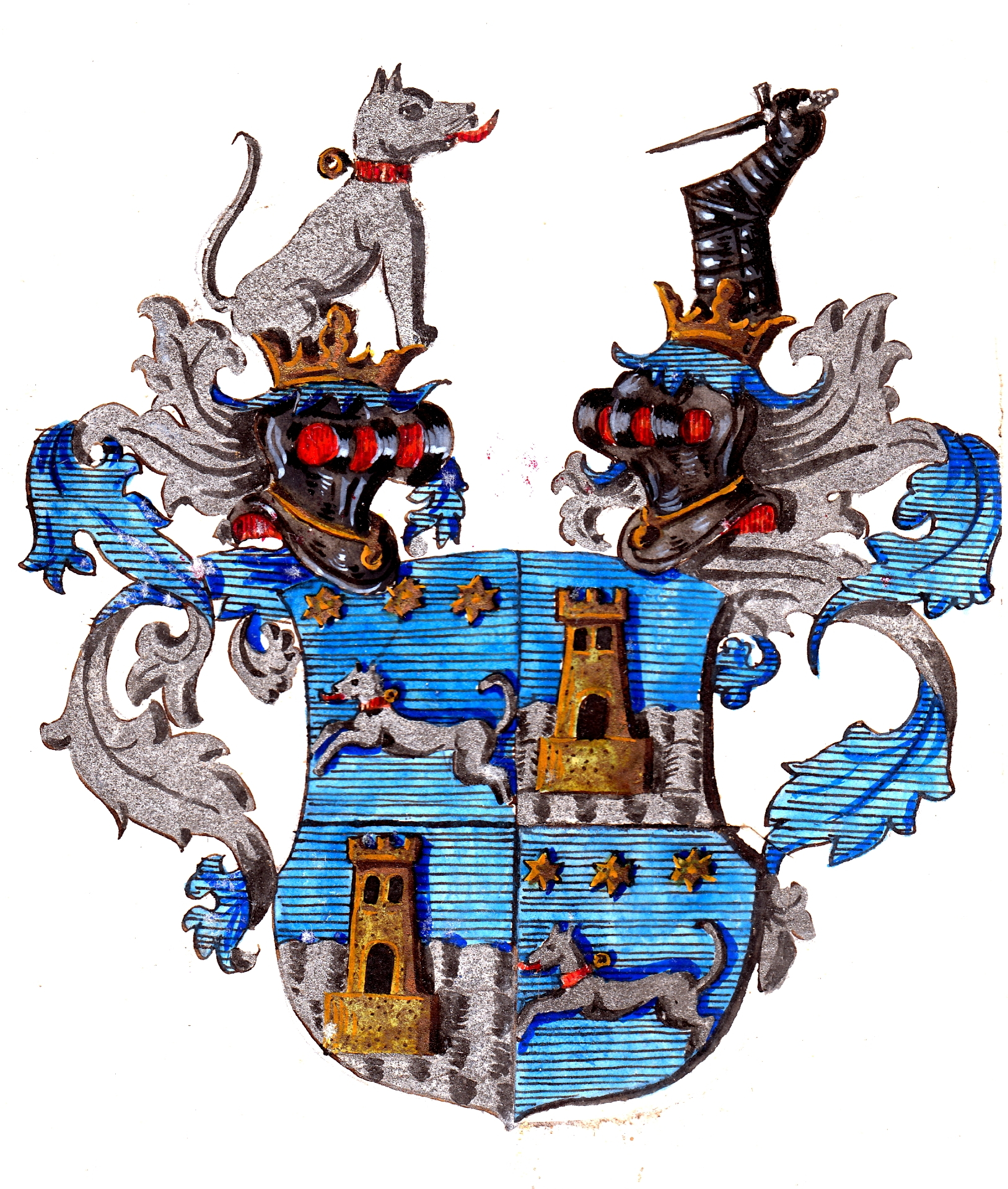 Coats of arms of Mollard of Rheineck family - Coloured drawing ( around 1890 ) by Ernst Count Sprinzenstein ( Family archives Sprinzenstein )